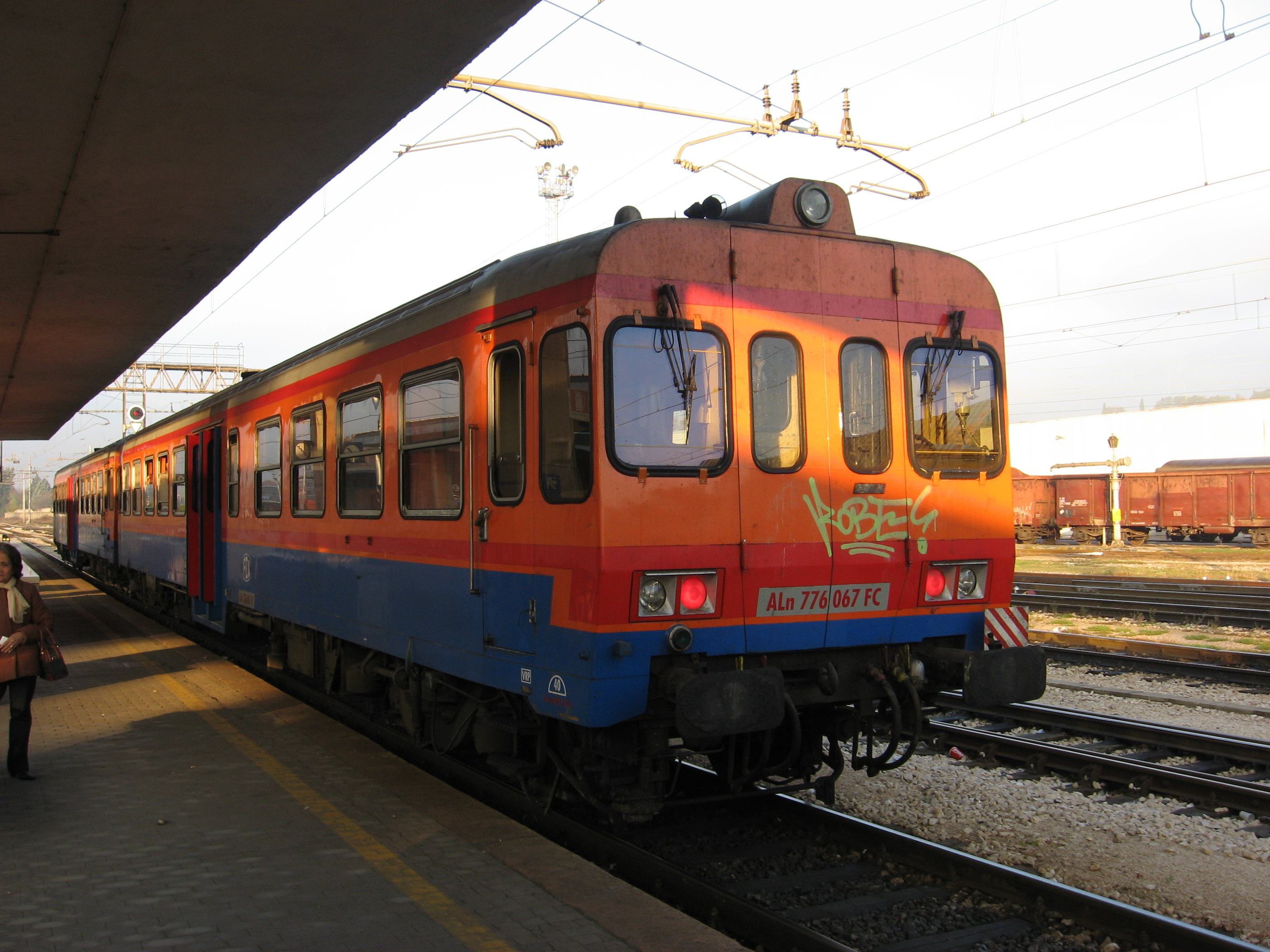 FCU ALn 776-076 and another ALn776 coupled in station in Terni, Italy